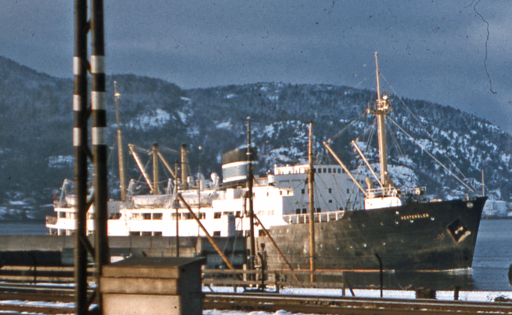 Format: Glasspositiv (Dias) Dato / Date: ca. 1954 - 1968 Fotograf / Photographer: Ukjent Sted / Place: Trondheim Wikipedia: MS "Vesterålen" (1950) Wikipedia: Vesteraalens Dampskibsselskab Eier / Owner Institution: Trondheim byarkiv, The Municipal Archives of Trondheim Arkivreferanse / Archive reference: Tor.H43.B77.F18546 Merknad: Fra Byantikvarens lysbildesamling. Bildene er merket Trondheim 1954 - 1968, men de aller fleste synes å være fra omkring 1954 / 1955.